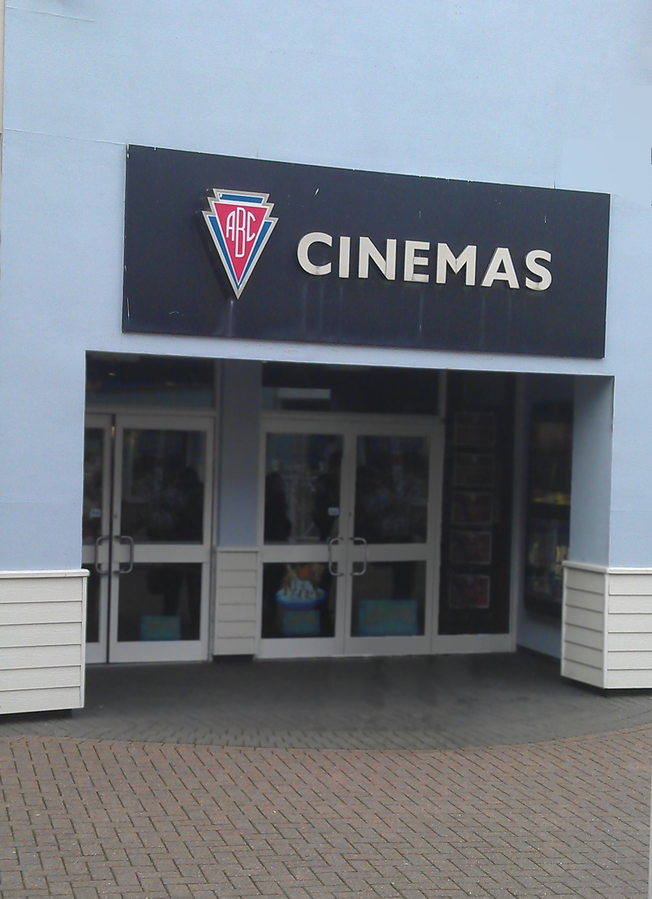 Photo of the Doors of the ABC Cinema at Butlins Bognor Regis